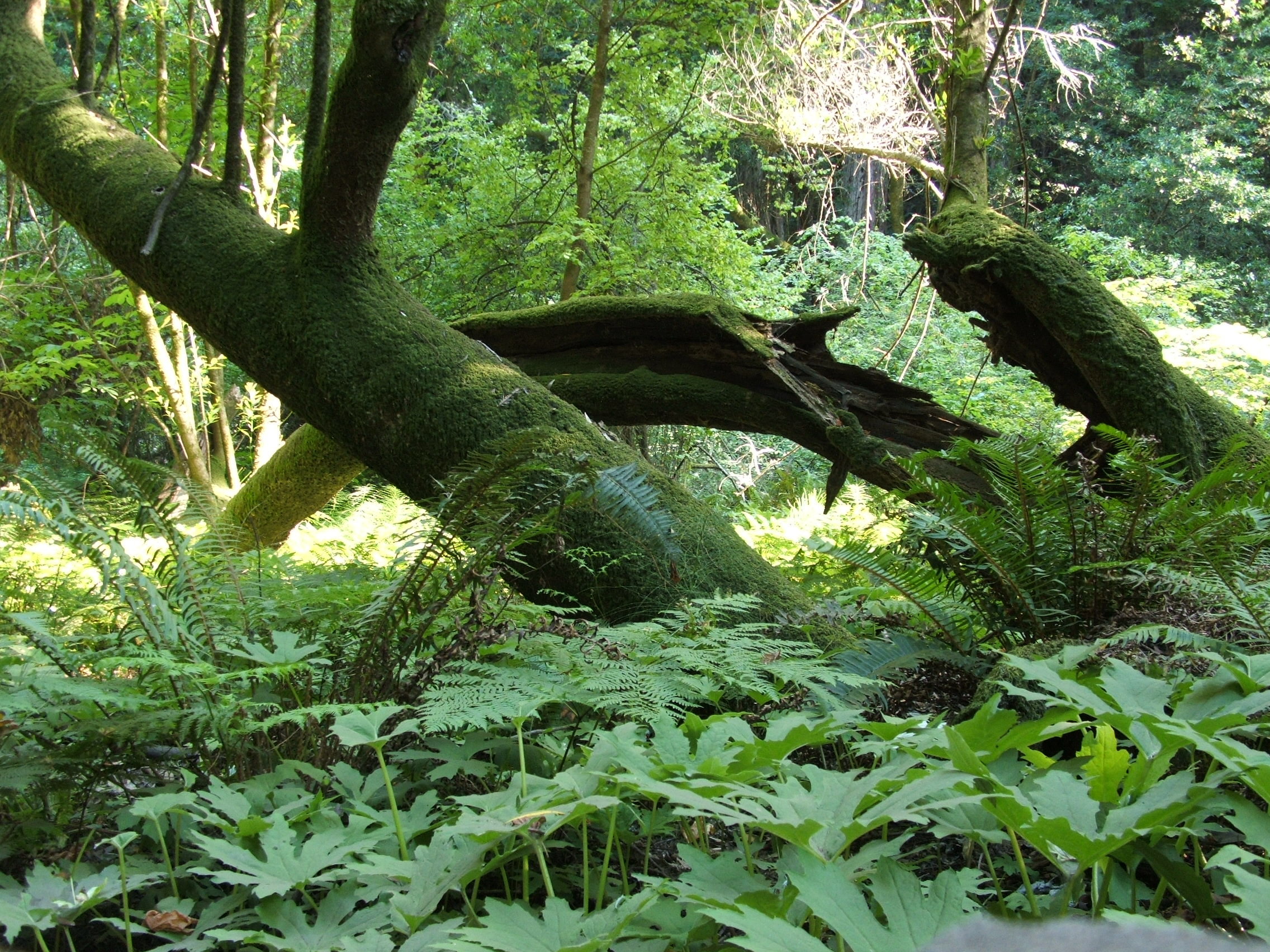 Muir Woods National Monument.